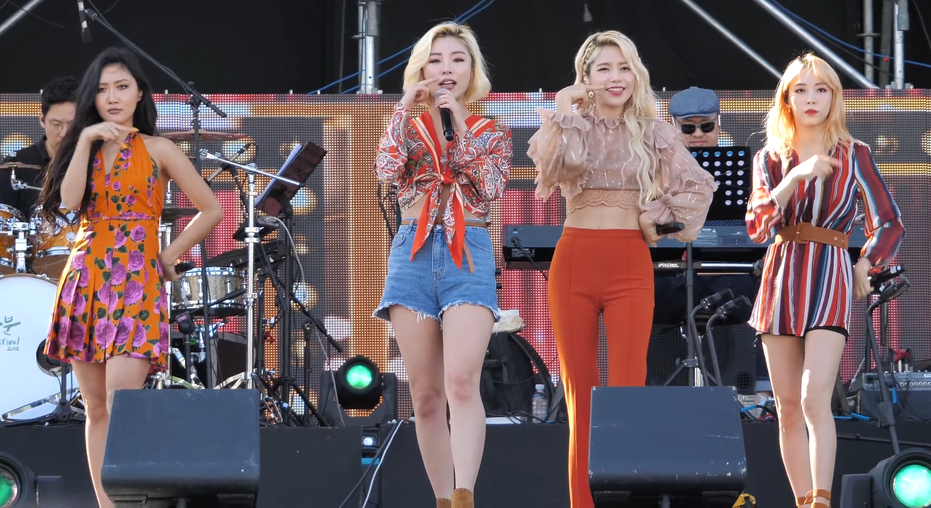 Mamamoo performing "Mr. Ambiguous" at Holgabun Festival on May 19, 2018